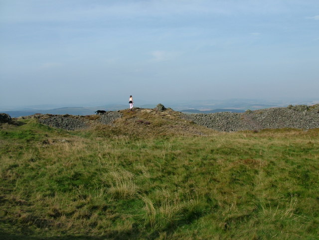 On Top of the Tap O'Noth.